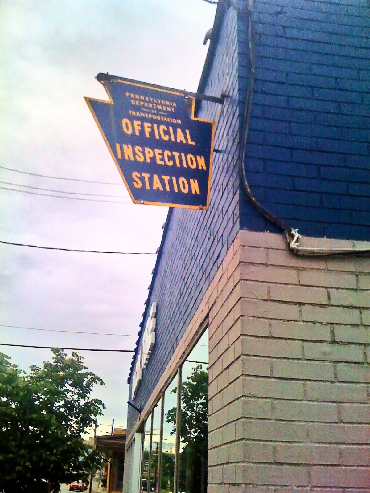 Picture of a PennDOT-issued, abbreviated keystone style sign, stating that this garage does vehicle inspections for the state.